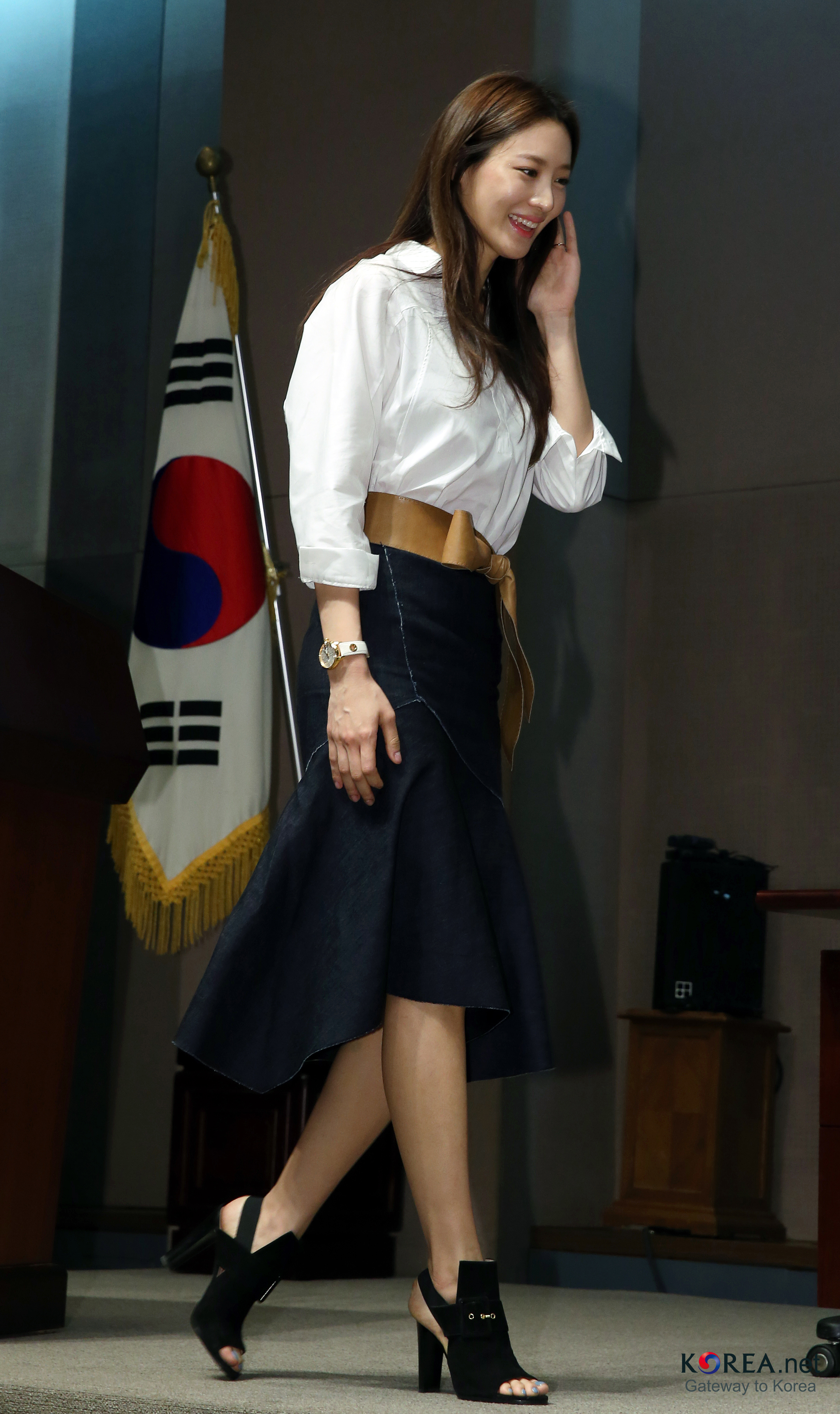 The Korea Film Commission and four government authorities signed an MOU with Marvel Studios to film its new movie, "Avengers: Age of Ultron," in Korea.